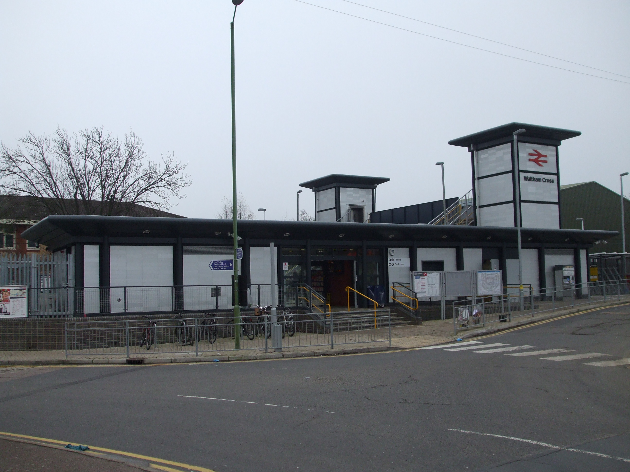 Waltham Cross station new building as seen in 2013